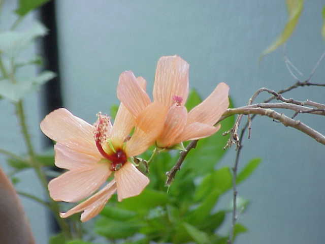 Species: Lavatera phoenicea Family: Malvaceae Image No. 2